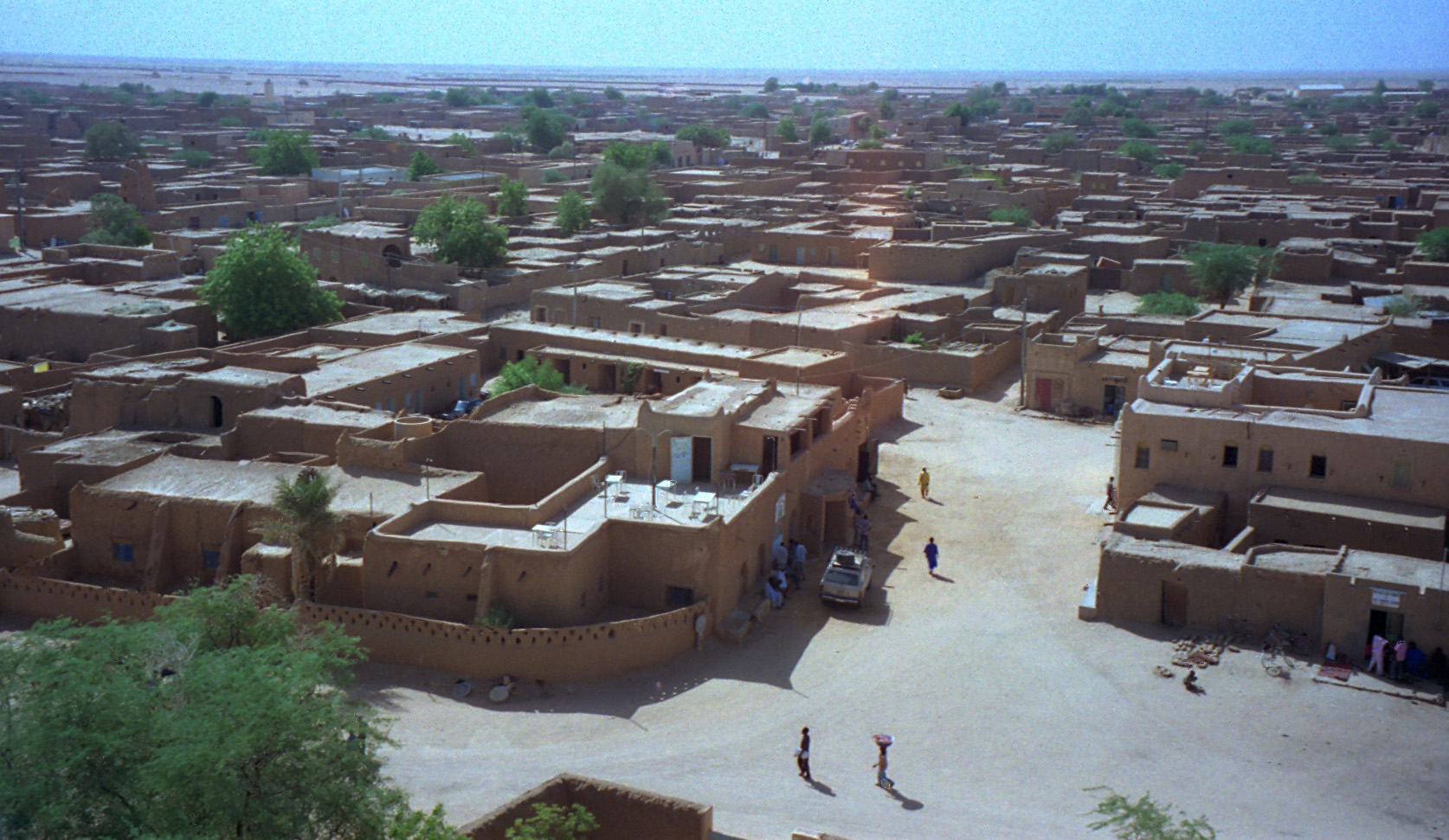 View of Agadez, Niger from mosque minaret. In foreground, Hotel de l'Air is on the left side of the street and Pension Tellit de Vittorio is on the right. Note the roof terraces. Photographed 1997.1997 #277-16A Agadez hotel